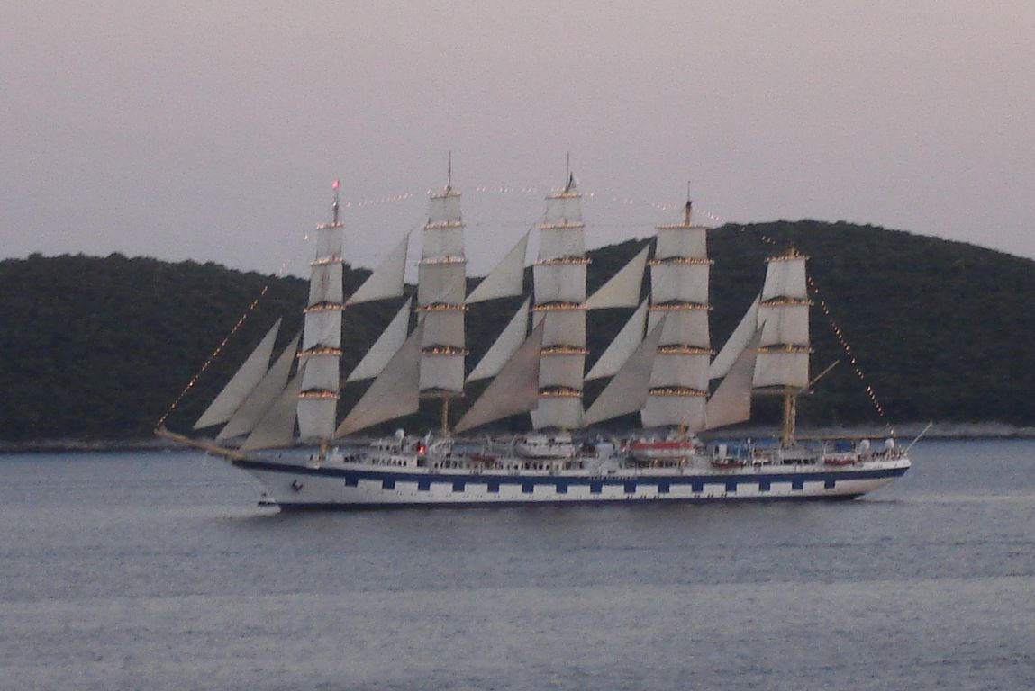 SV Royal Clipper